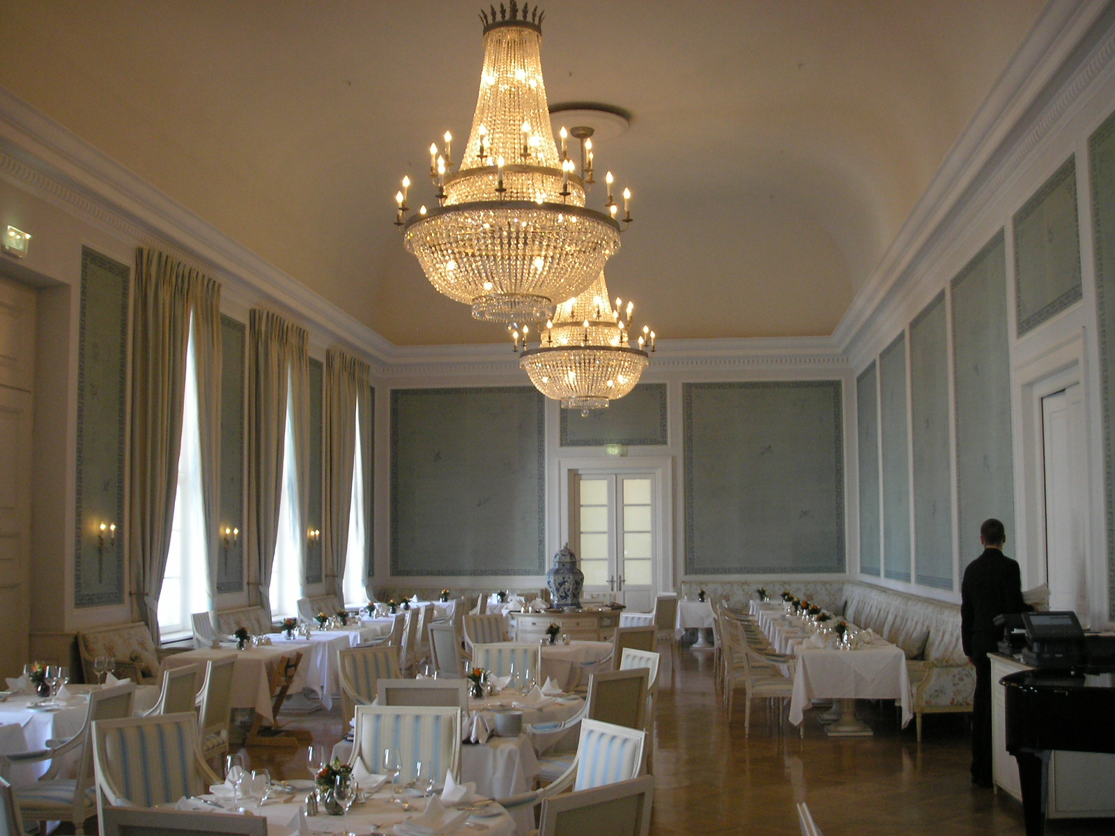 Image of the main dining hall in the Kurhaus, Heiligendamm.